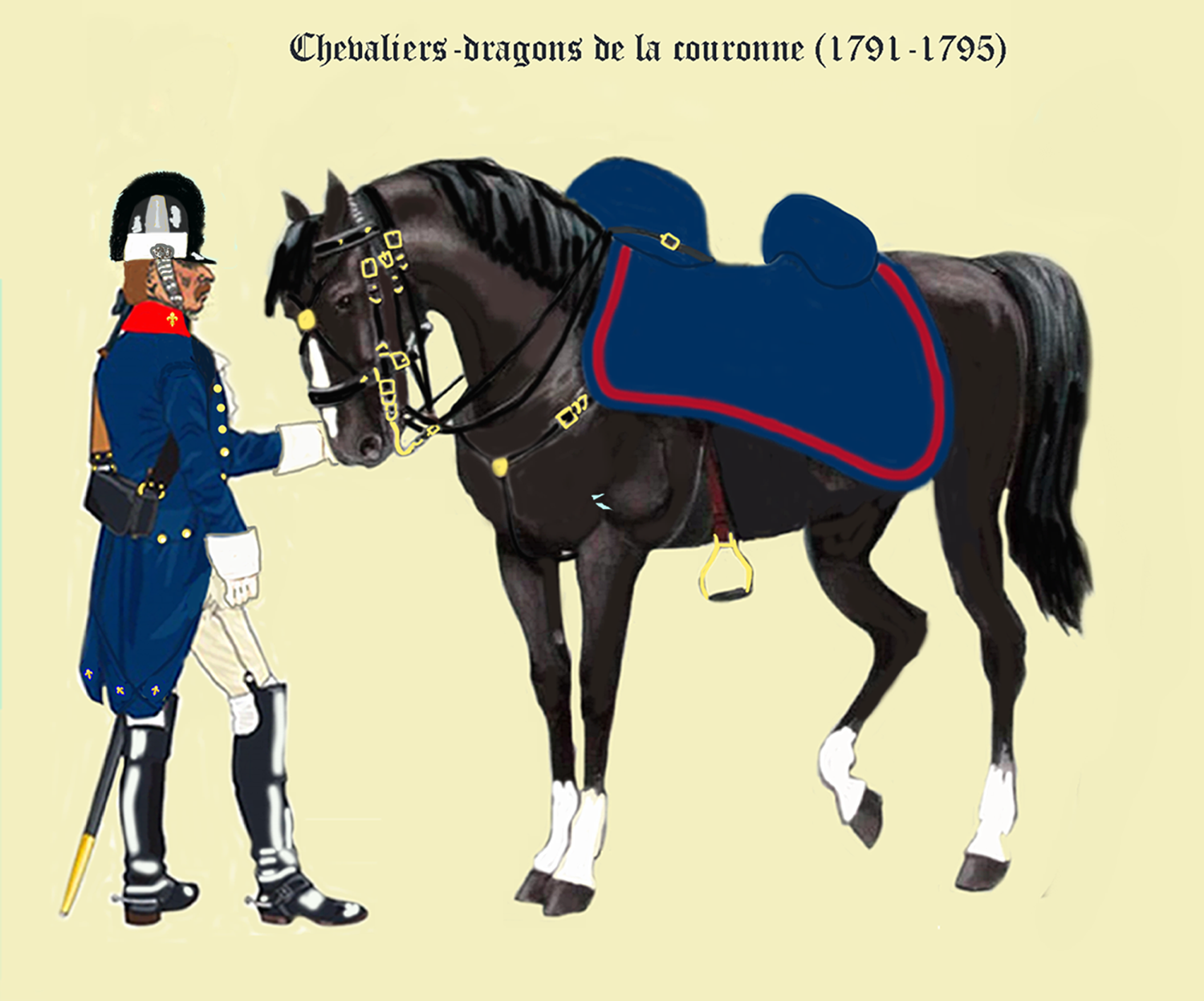 Chevaliers-dragons de la couronne